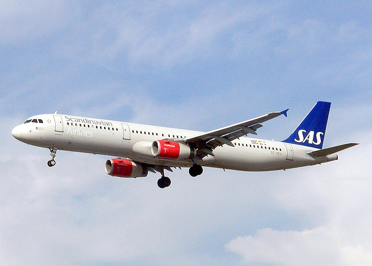 SAS Airbus A321-200 (SE-REG) landing at London (Heathrow) Airport.